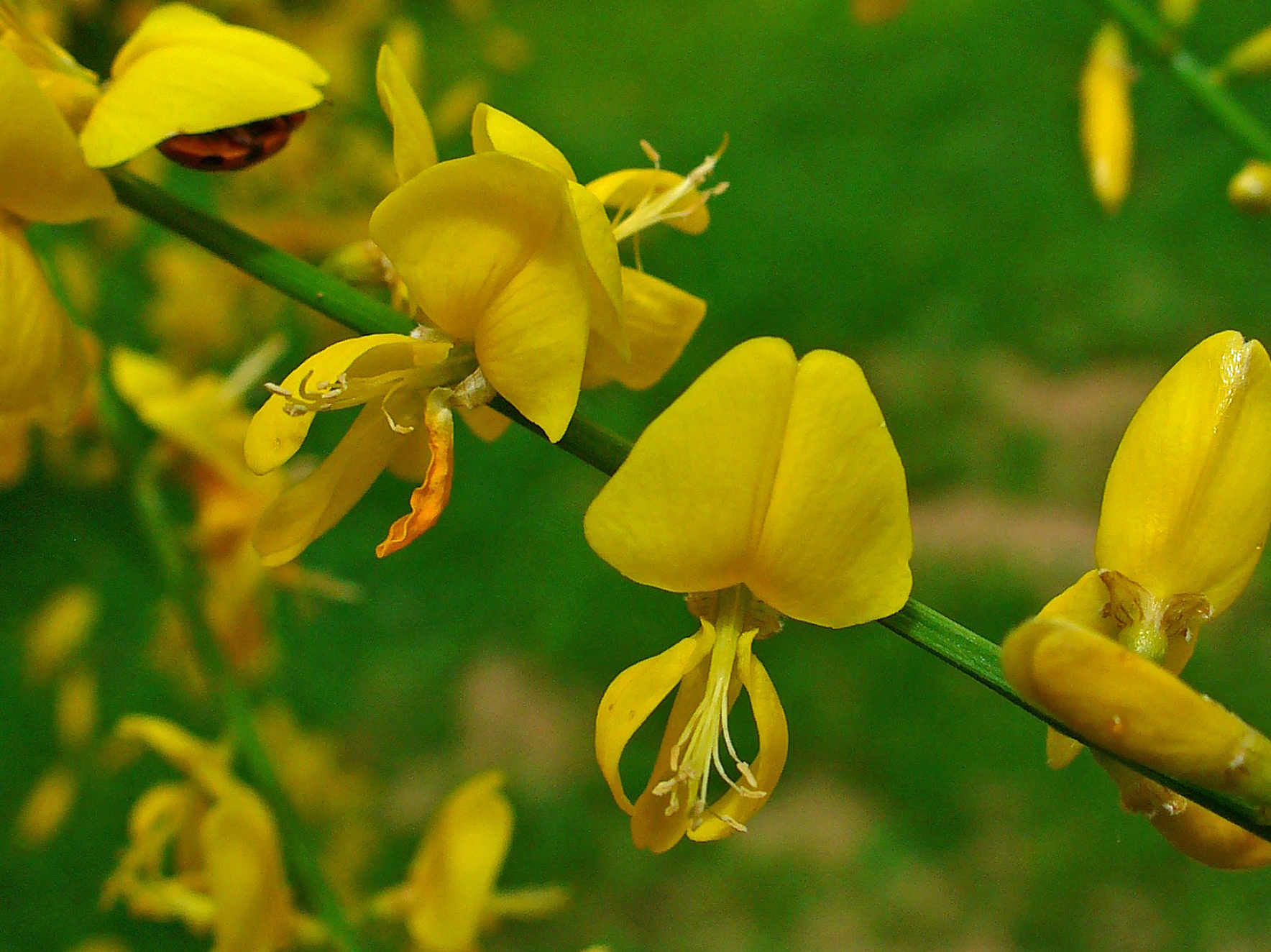 Genista aetnensis, Fabaceae, Mount Etna Broom, flowers; Botanical Garden KIT, Karlsruhe, Germany.